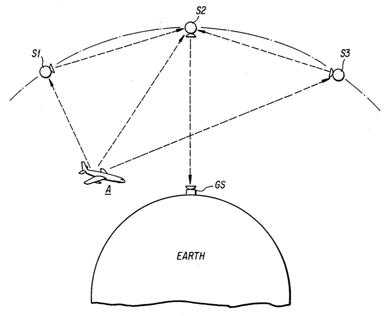 Diagram of position determination using satellites